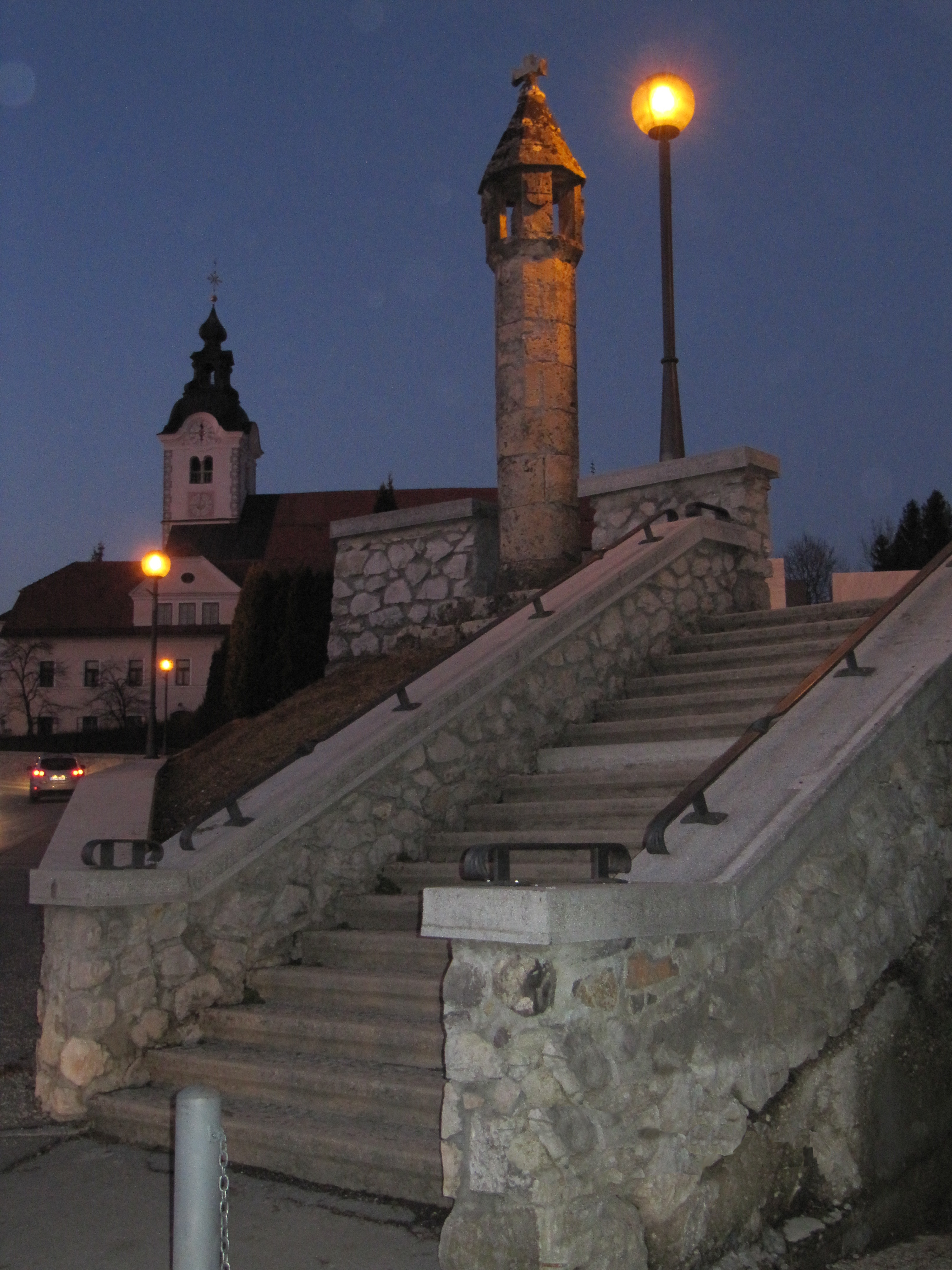 Church of Komenda, Slovenia